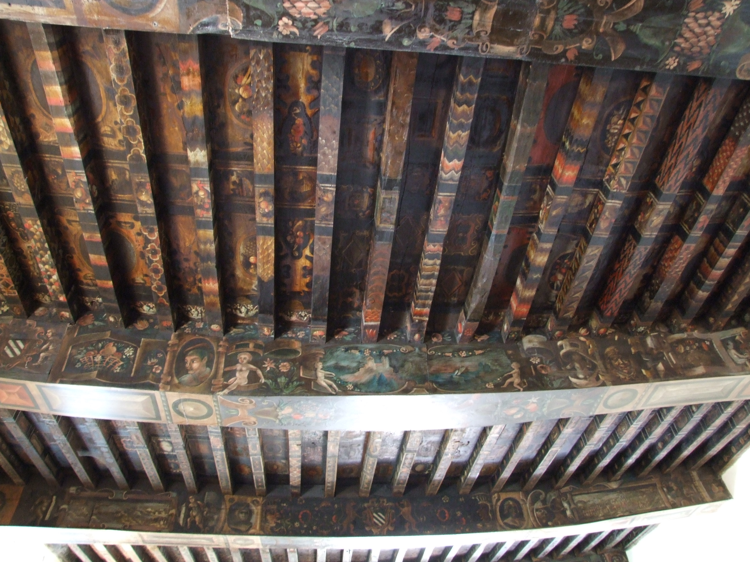 Carennac, Lot, FRANCE